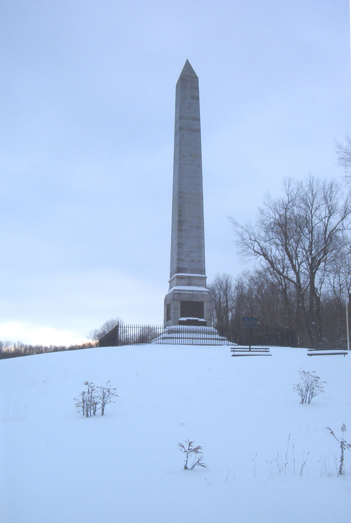 Oriskany Battlefield State Historic Site monument, New York, USA, from north